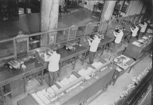 Bowery Savings Bank, 34th St. and 5th Ave., New York City. Tellers at machines Rights Advisory: No known restrictions on publication. Reproduction Number: LC-G612-T01-39059 (b&w film dup. neg.) Call Number: LC-G612- 39059 [P&P]